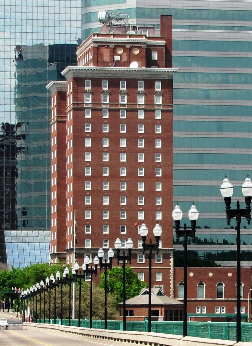 The south facade of the Andrew Johnson Building, viewed from the Gay Street Bridge, in Knoxville, Tennessee, USA. The Plaza Tower (First Tennessee Plaza) and Riverview Tower (BB&T) rise behind the Andrew Johnson Building. The Blount Mansion visitor's center is visible at the base of the building.